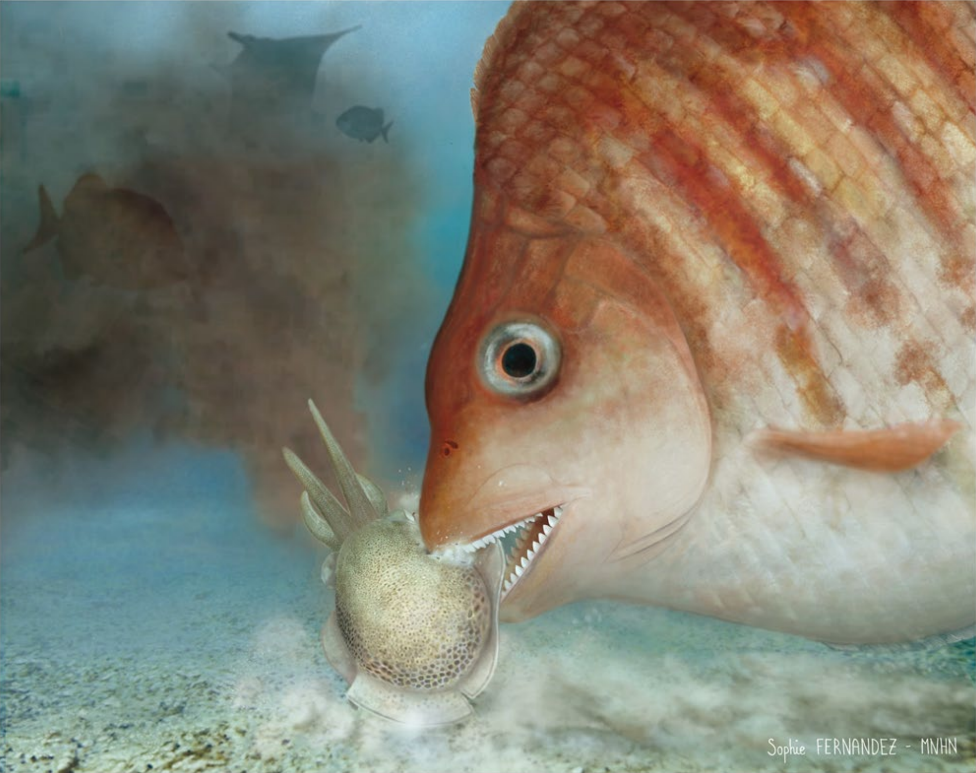 Life reconstruction of Serrasalmimus secans. Tis reconstruction illustrates the putative feeding behaviour of this piranha-jawed pycnodont, as predator of sof-bodied animals such as cuttlefshes (foreground) and facultative ectoparasite of large animals such as primitive devil rays (background). Te head, squamation and body outline are based on Gyrodus, the most closely related pycnodont taxon known from complete skeletons.